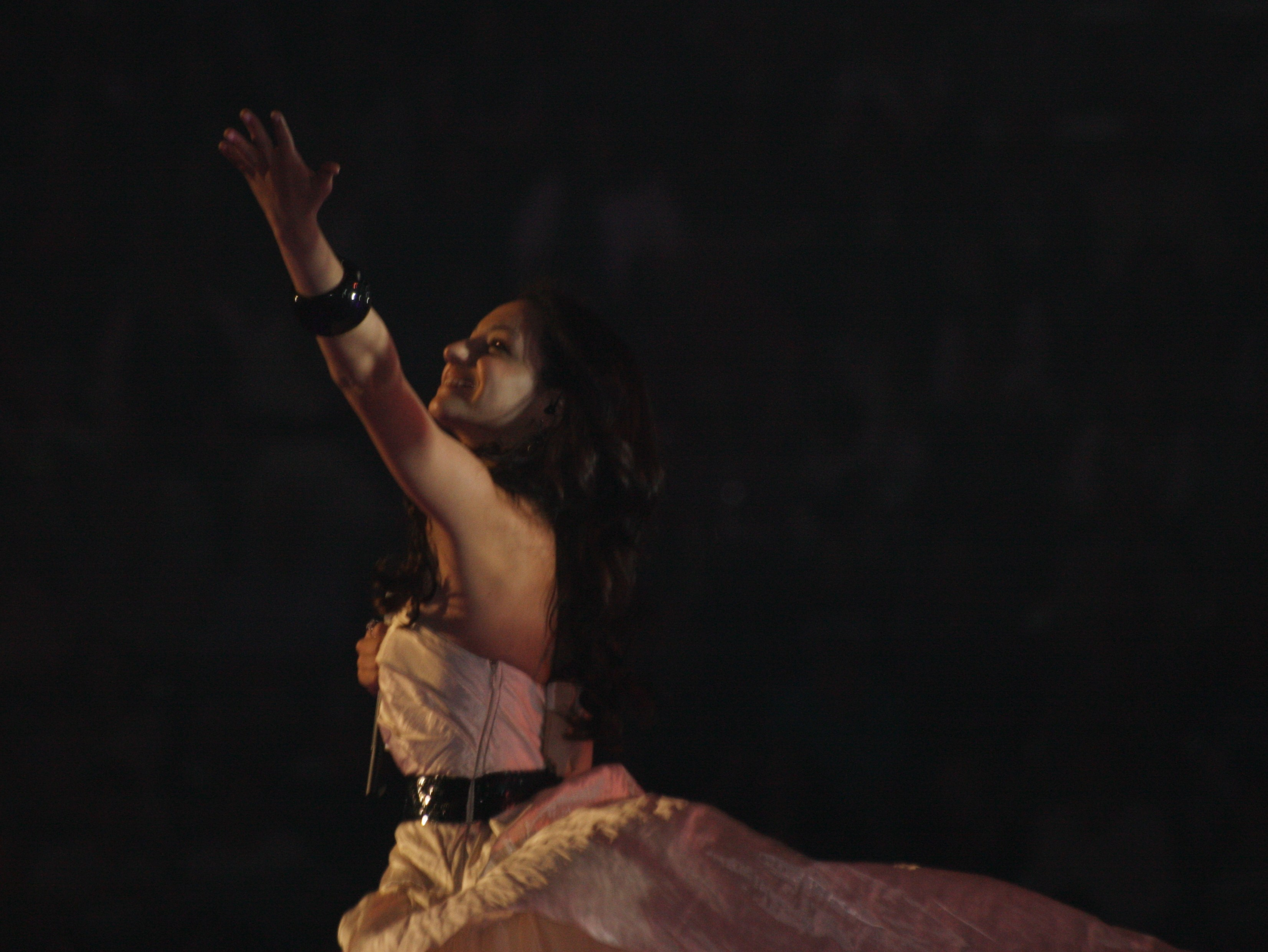 Filipa Azevedo, artist of Portugal in Eurovision Song Contest 2010, rehearsal, Telenor Arena. Norway.